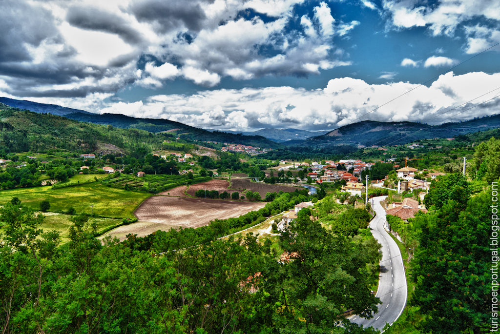 Cerva a town in Ribeira da Pena, Tras os Montes, Vila Real, Portugal.